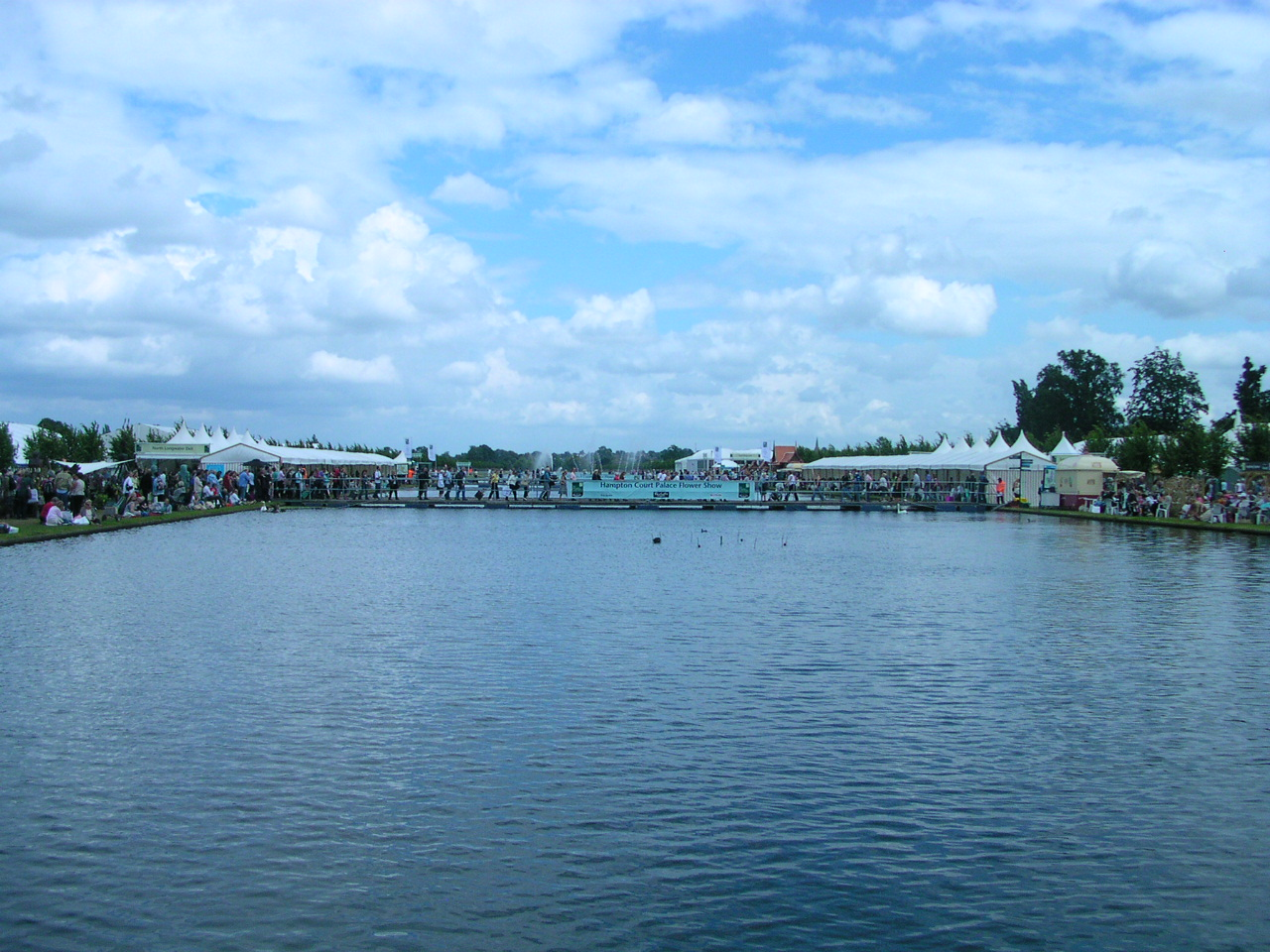 Hampton Court Palace Flower Show, London, the Long Water.